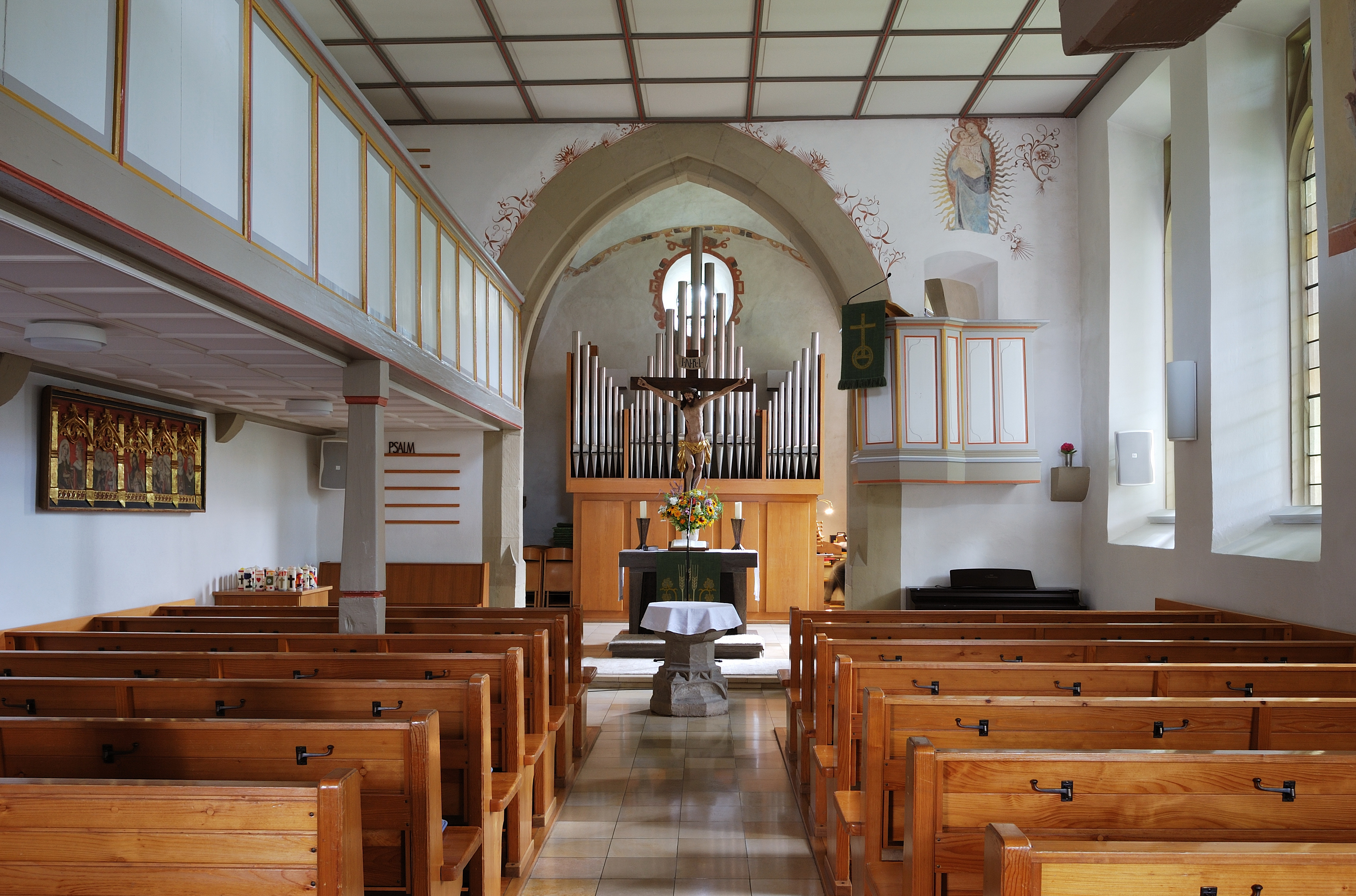 St. Mauritius church, evangelical parish church in Schöckingen, Baden-Württemberg, Germany.